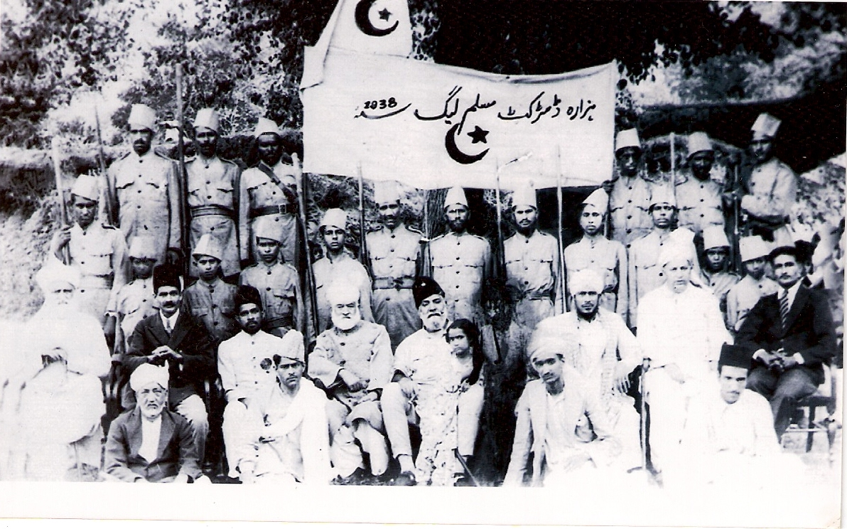 from left to right Sayed Lal Badshah-Mian Basiruddin-Secretary of Maulan Shaukat ALi-Mian Noor Uddin Qureshi- Mulana Shaukat Ali(of Ali brothers)-small girl grand daughter of Mian Noor Uddin -Maulana Abdul Hameed Badayuni-Faqira khan Jadoon -Mian Zuhoor Uddin Qureshi